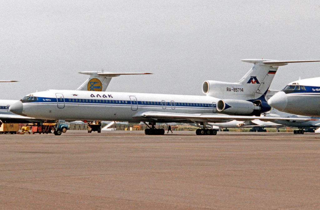 Tupolev Tu-154M RA-85714 of ALAK at Moscow's Vnukovo Airport in 1994